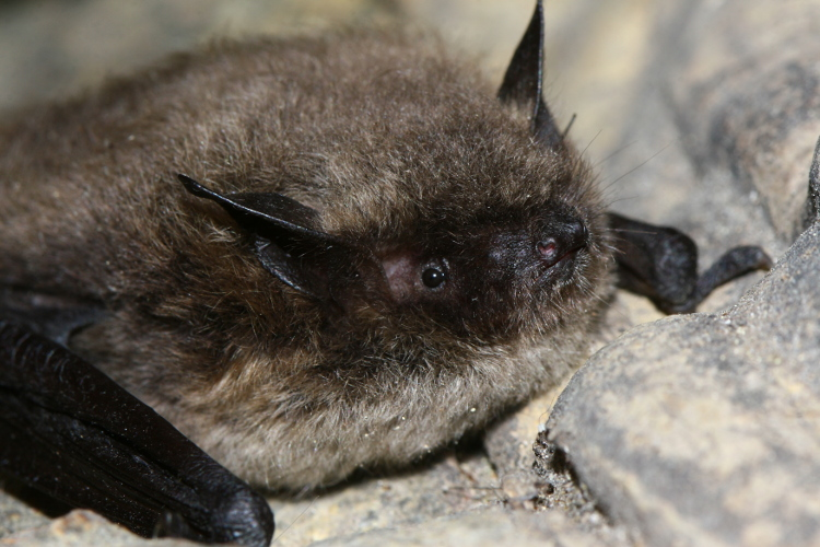 Brandt's bat (Myotis brandtii). The specimen has been reliably identified on the basis of its teeth and penis shape.